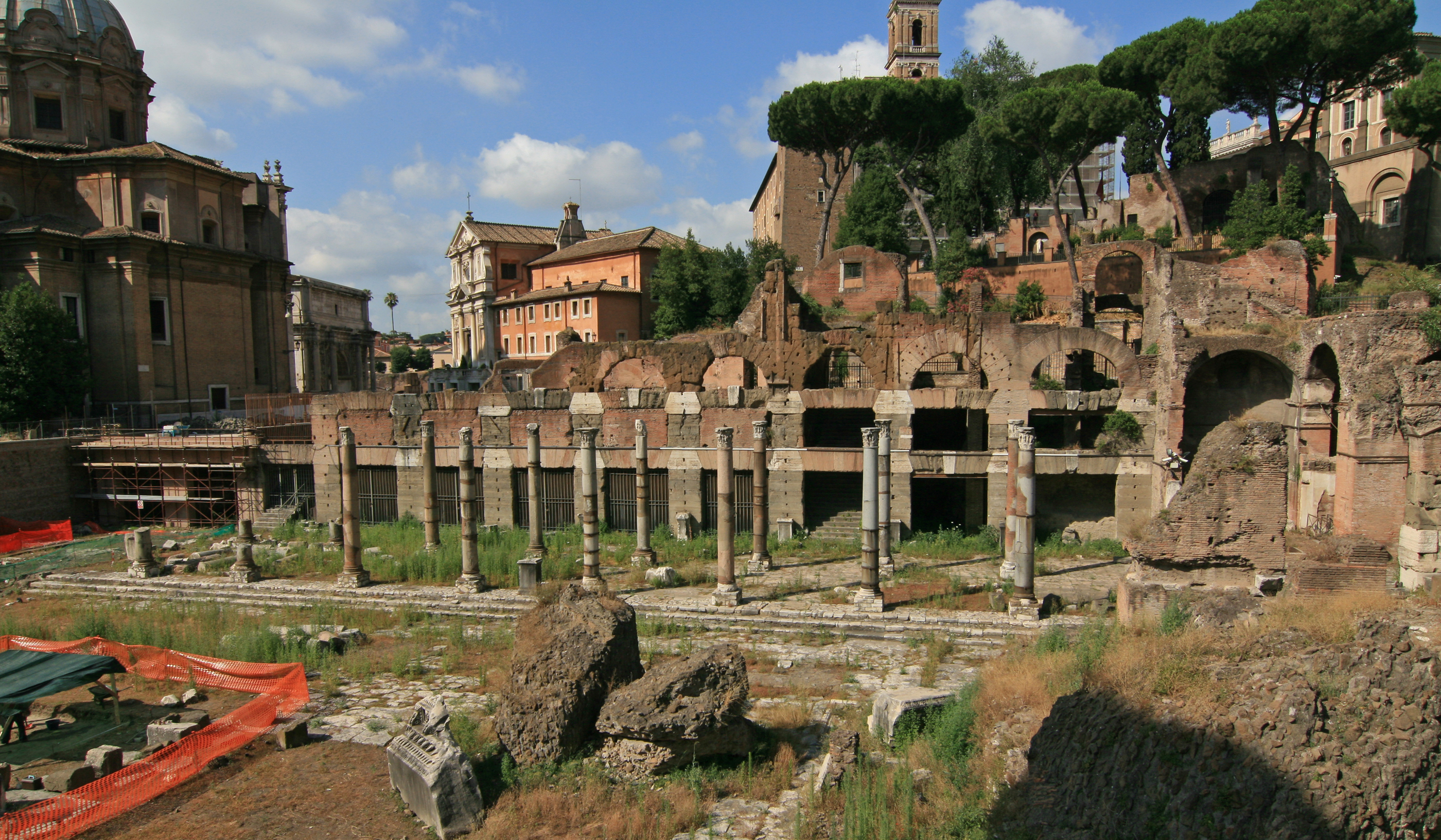 Forum of Caesar, Rome, seen from Via dei Fori Imperiali.